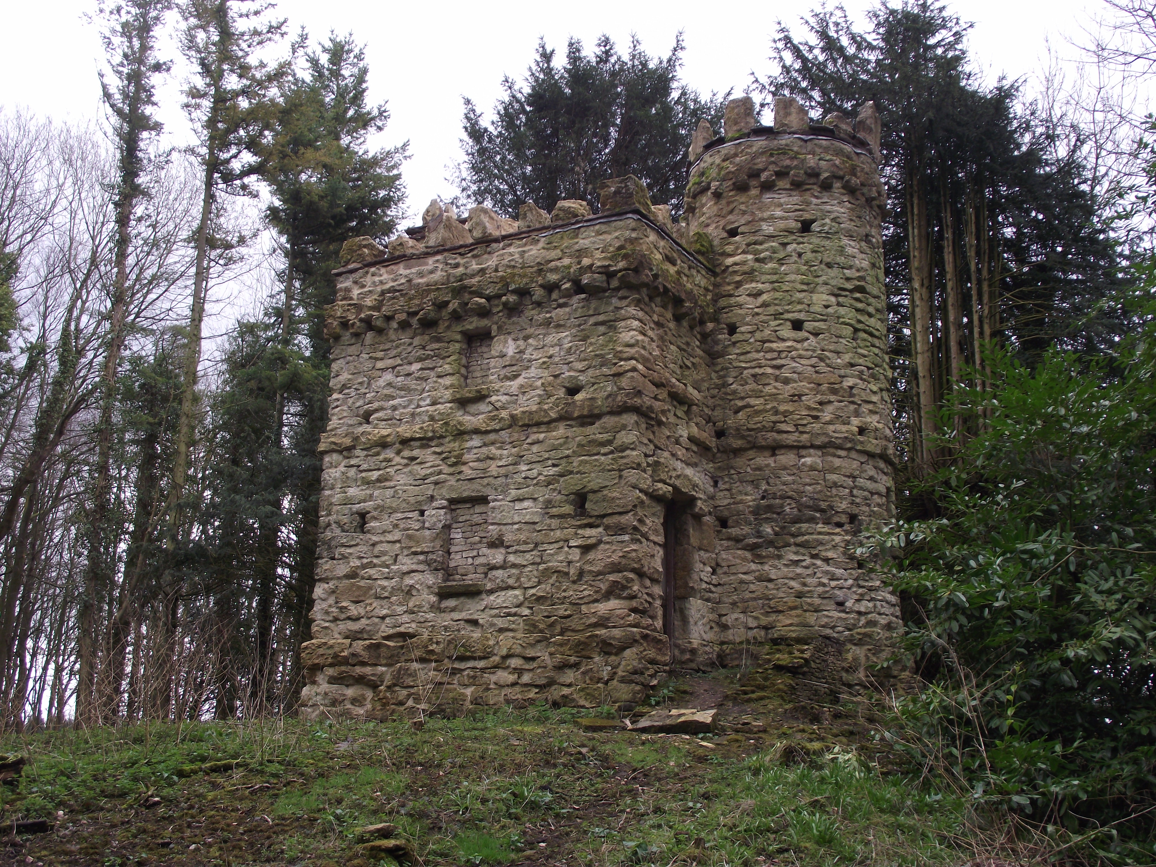 The Ragged Castle, a folly near Badminton House.